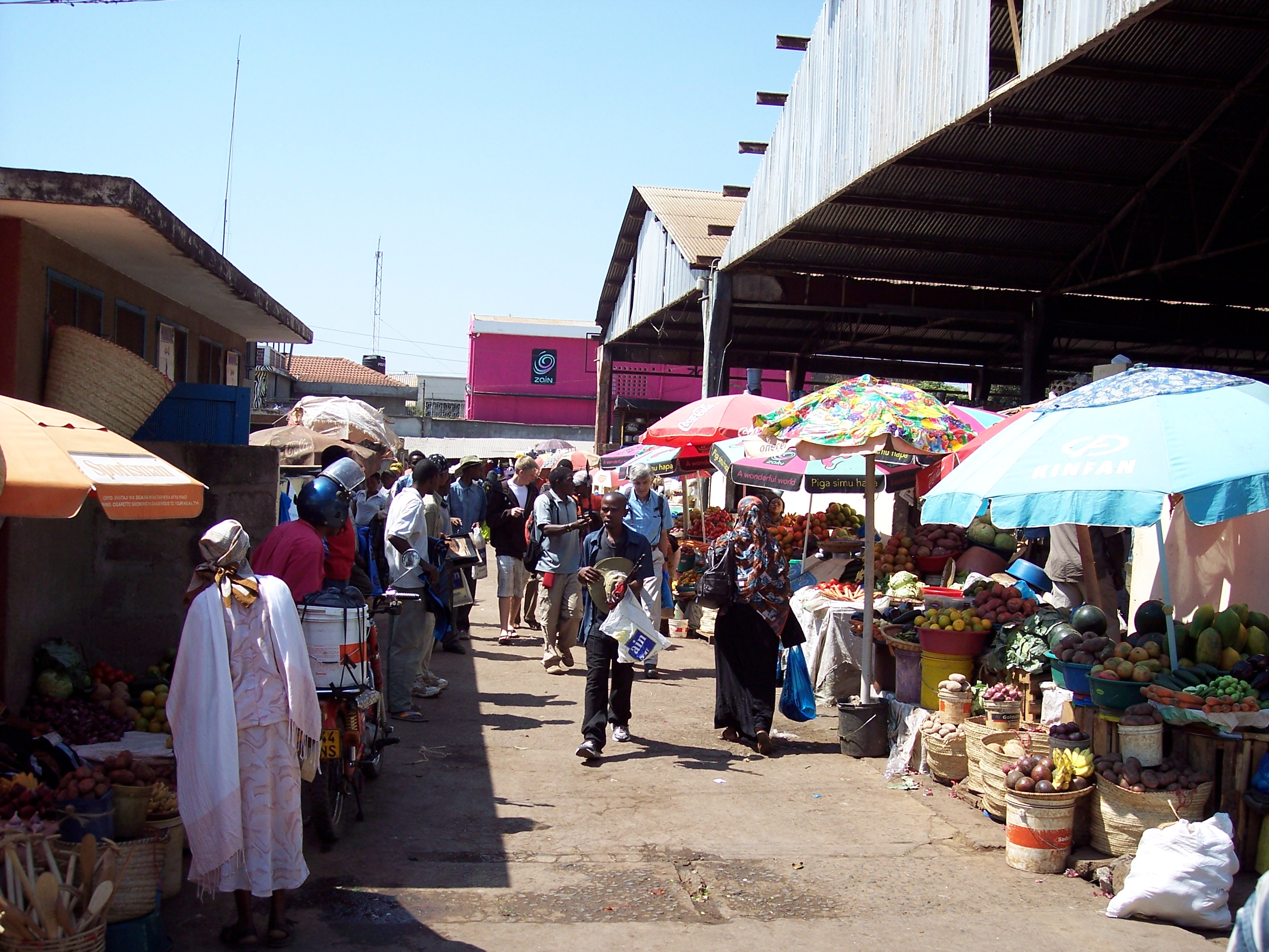 The market in Moshi, Tanzania